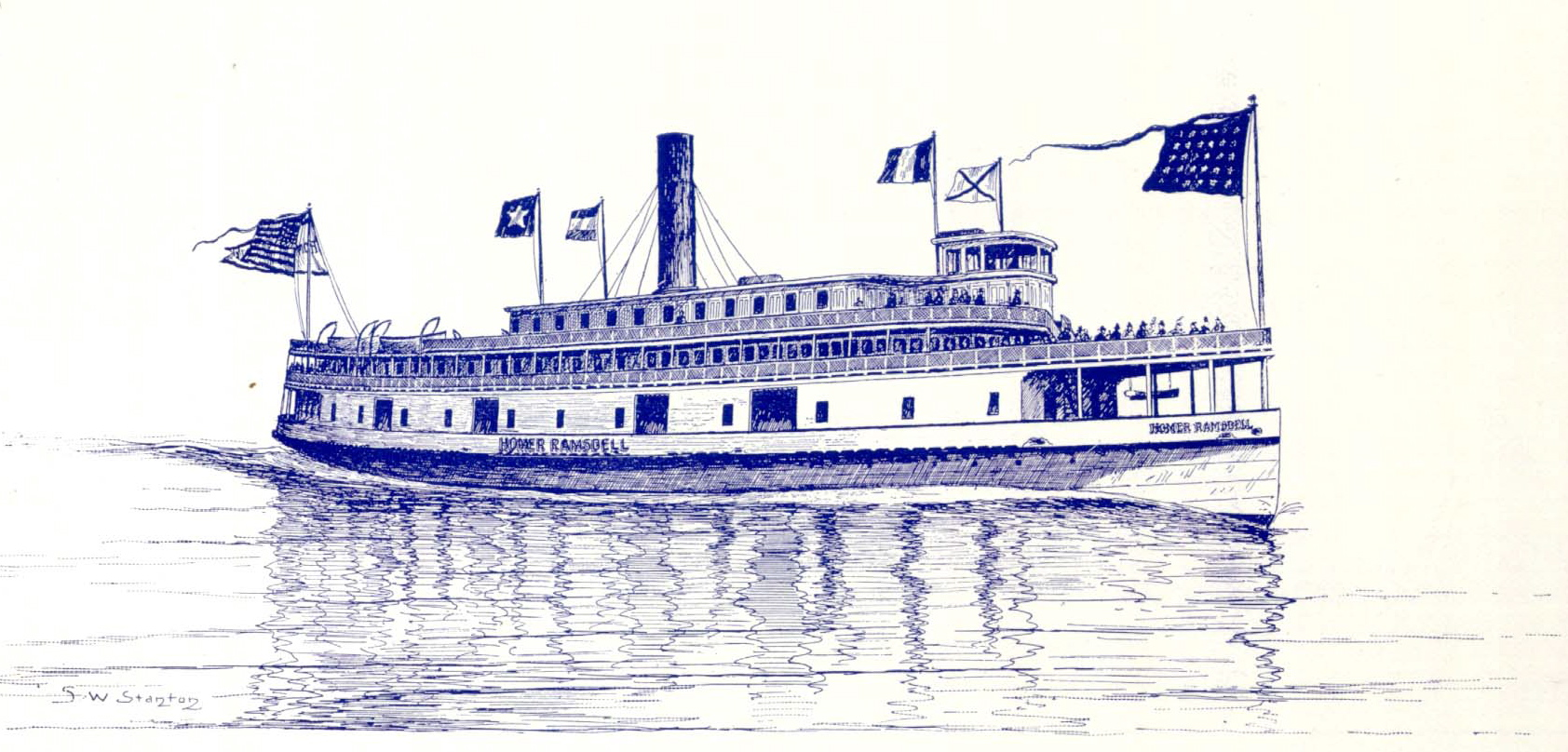 Homer Ramdell, Hudson River steamboat built 1887.